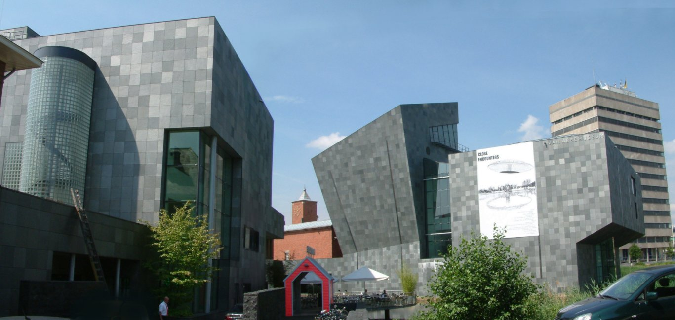 van Abbemuseum in Eindhoven